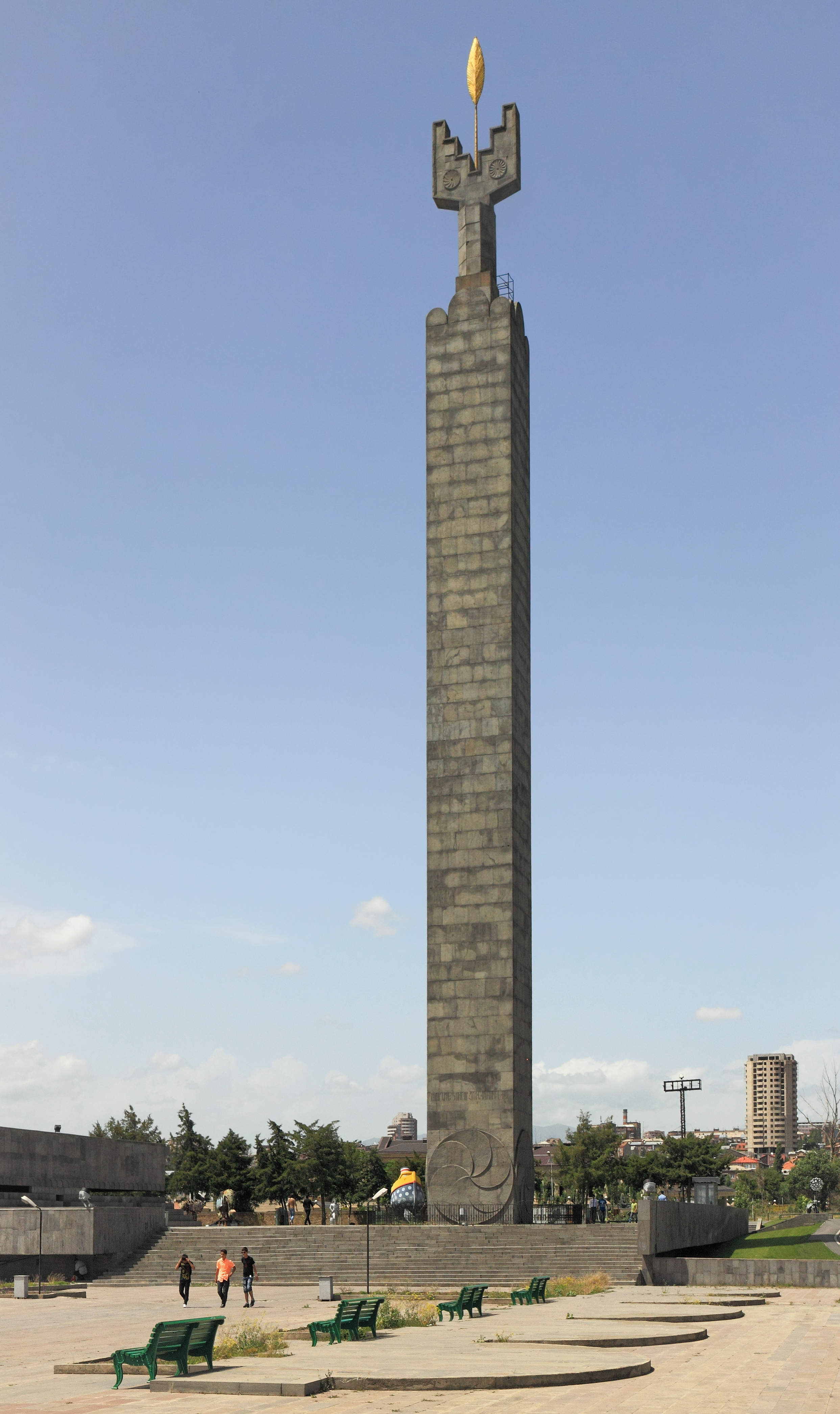 Revived Armenia Monument on the Cascade. Yerevan, Armenia.